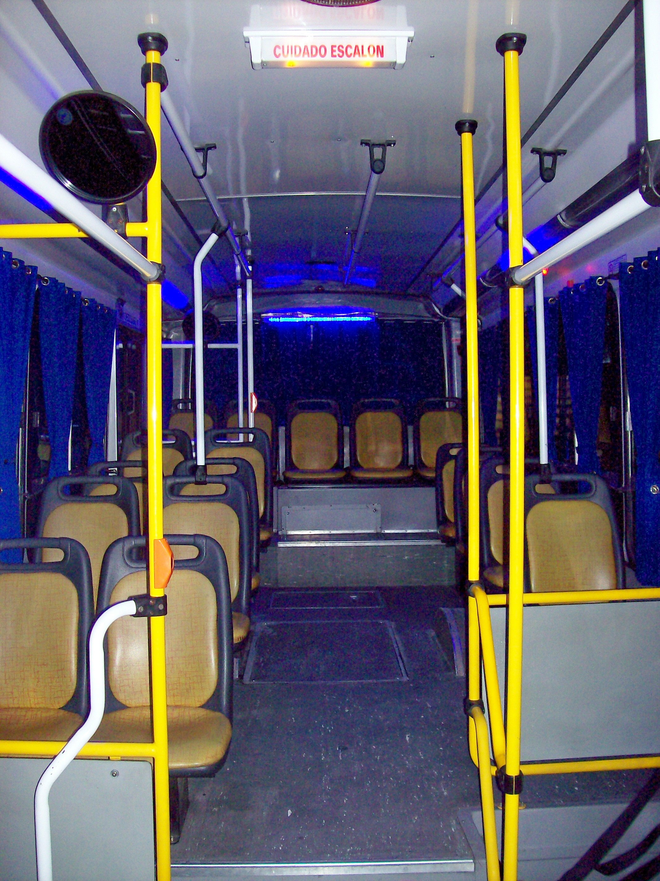 Bus interior with unknow chassis in Buenos Aires, Argentina. Colectivo, line 71, Linea 71 S.A. operator.